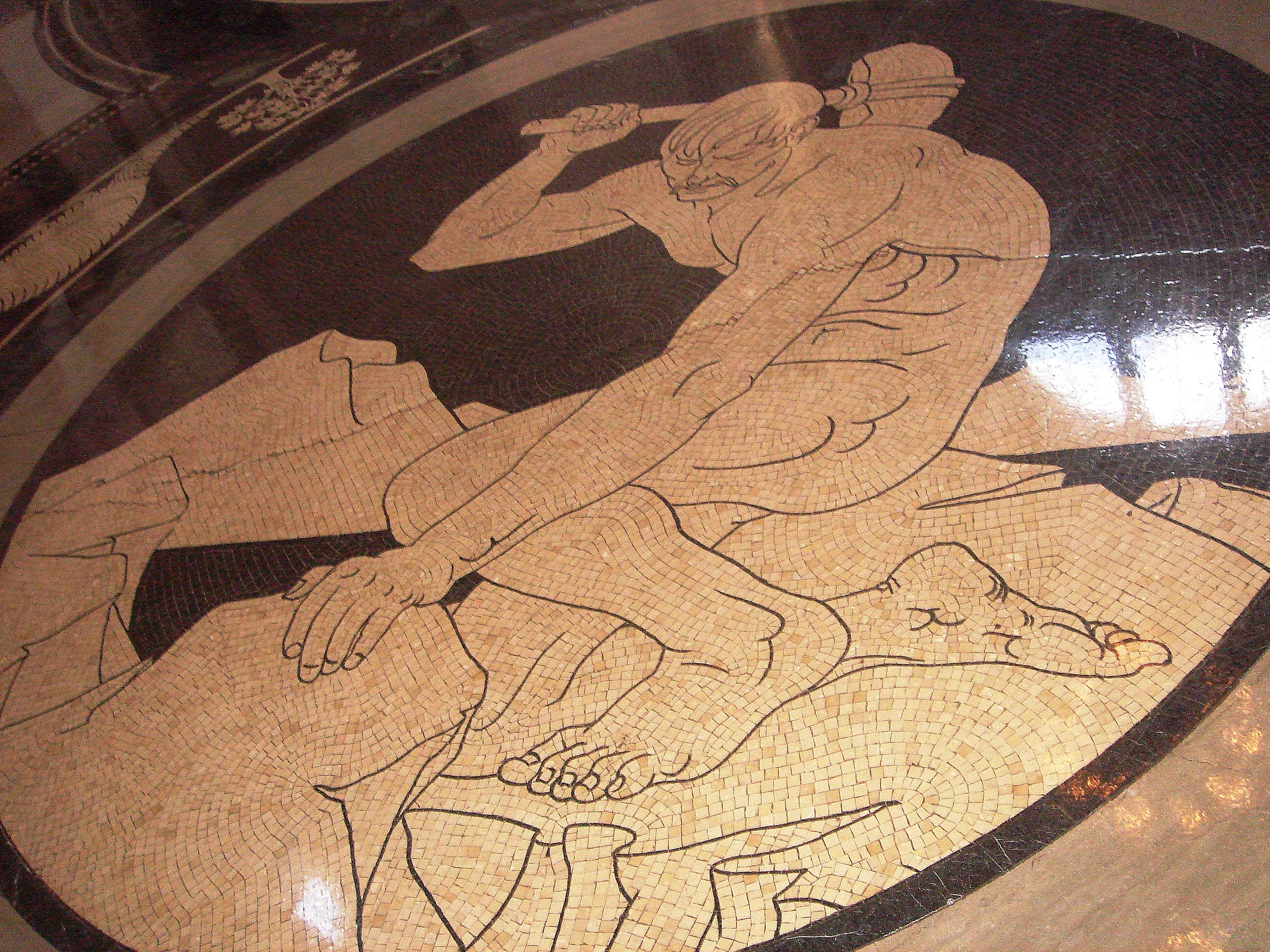 Nebraska State Capitol, Hildreth Meiere floor mosaic, “Genius of Fire”, detail